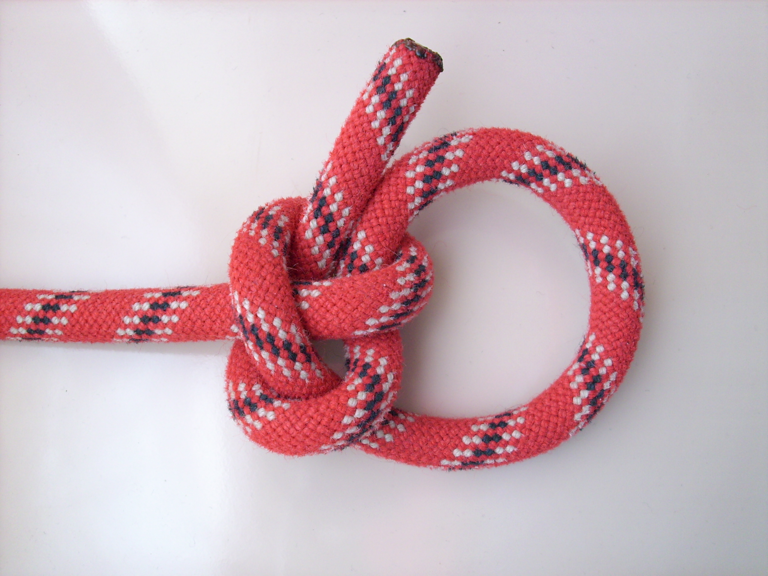 Inuit, Boas, or Eskimo bowline ("outside" variant -- working end outside loop)